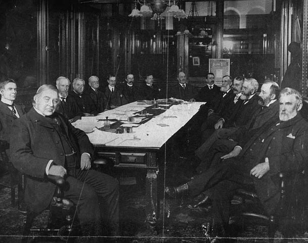 Meeting of the directors of the Crown Life Insurance Company. Rt. Hon. Sir Charles Tupper is seated in the foreground